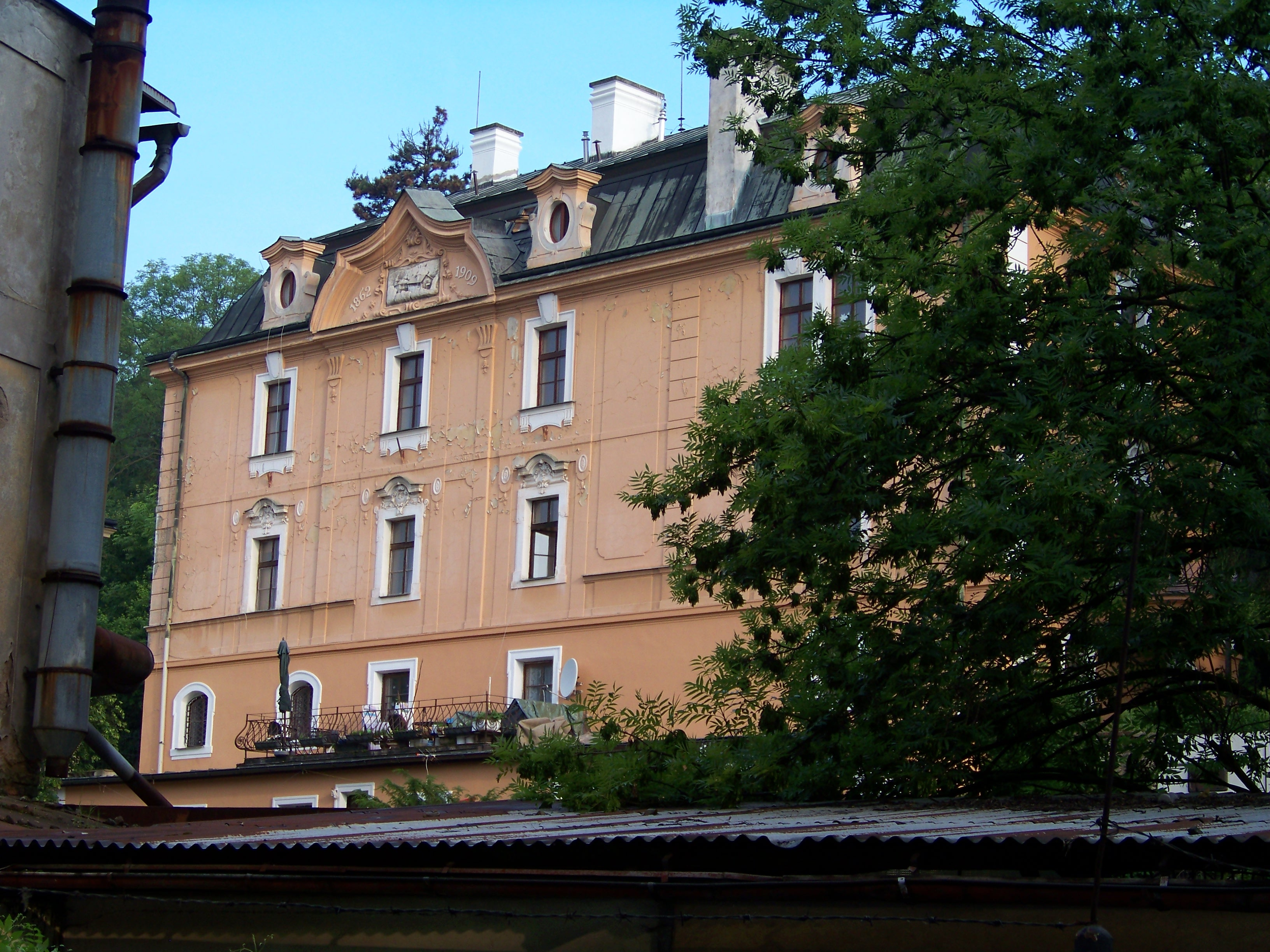 Hlubočepy, Prague, the Czech Republic. Hlubočepská street, Slovanka building.